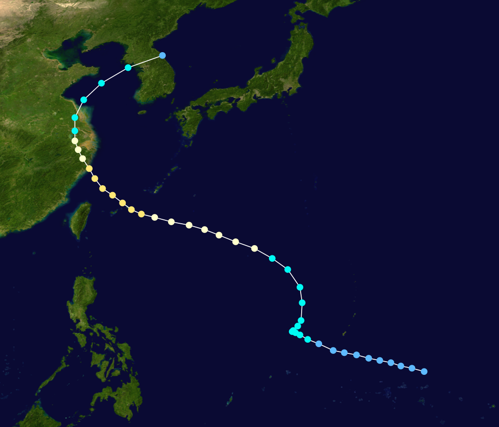 Typhoon Abe (1990) track. Uses the color scheme from the Saffir-Simpson Hurricane Scale.